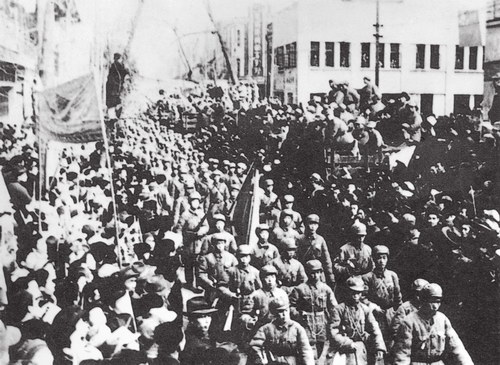 People's Liberation Army troops entered to Guangzhou on December 27, 1949. 中文（中国大陆）: 1949年12月27日，中国人民解放军进驻成都，成都解放。